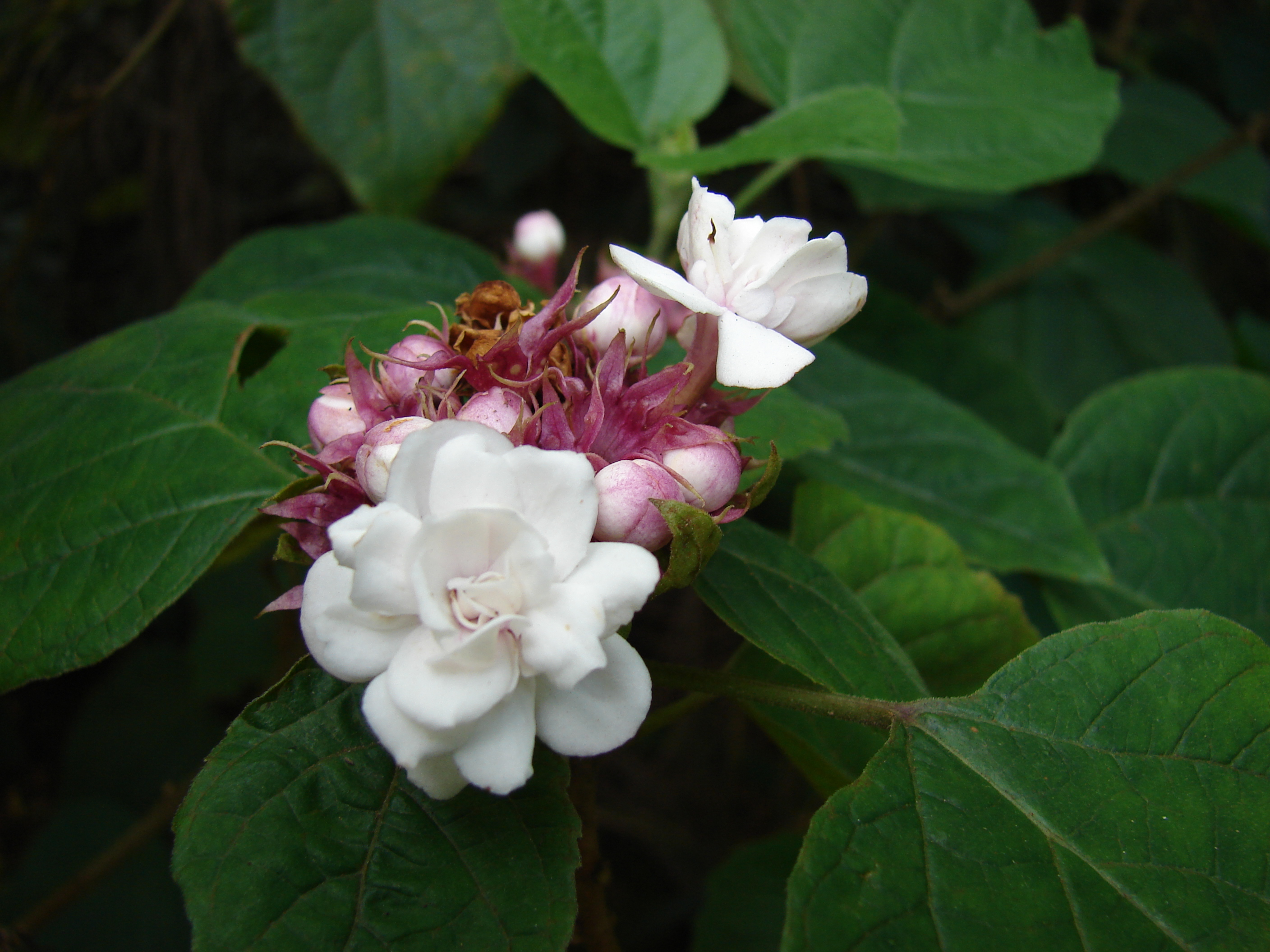 Clerodendrum chinense (flowers and leaves). Location: Maui, Haiku